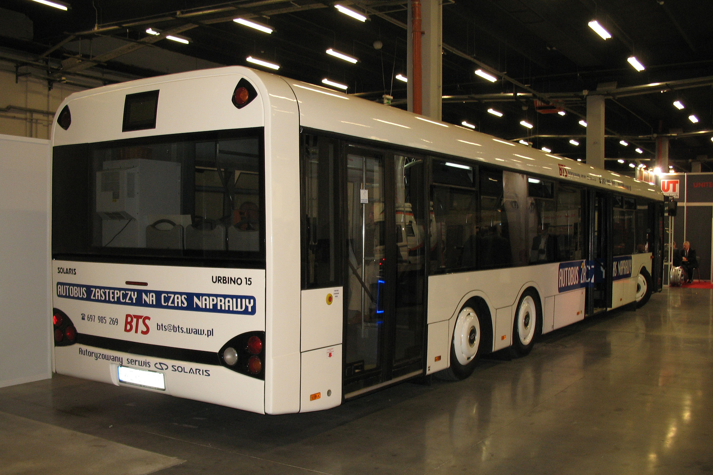 Solaris Urbino 15 Mk1 bus (reg. WZ 6077F) in Kielce, Poland. Built 2000, Bus & Truck Service (BTS) from Wyględy operator. Transexpo 2011.